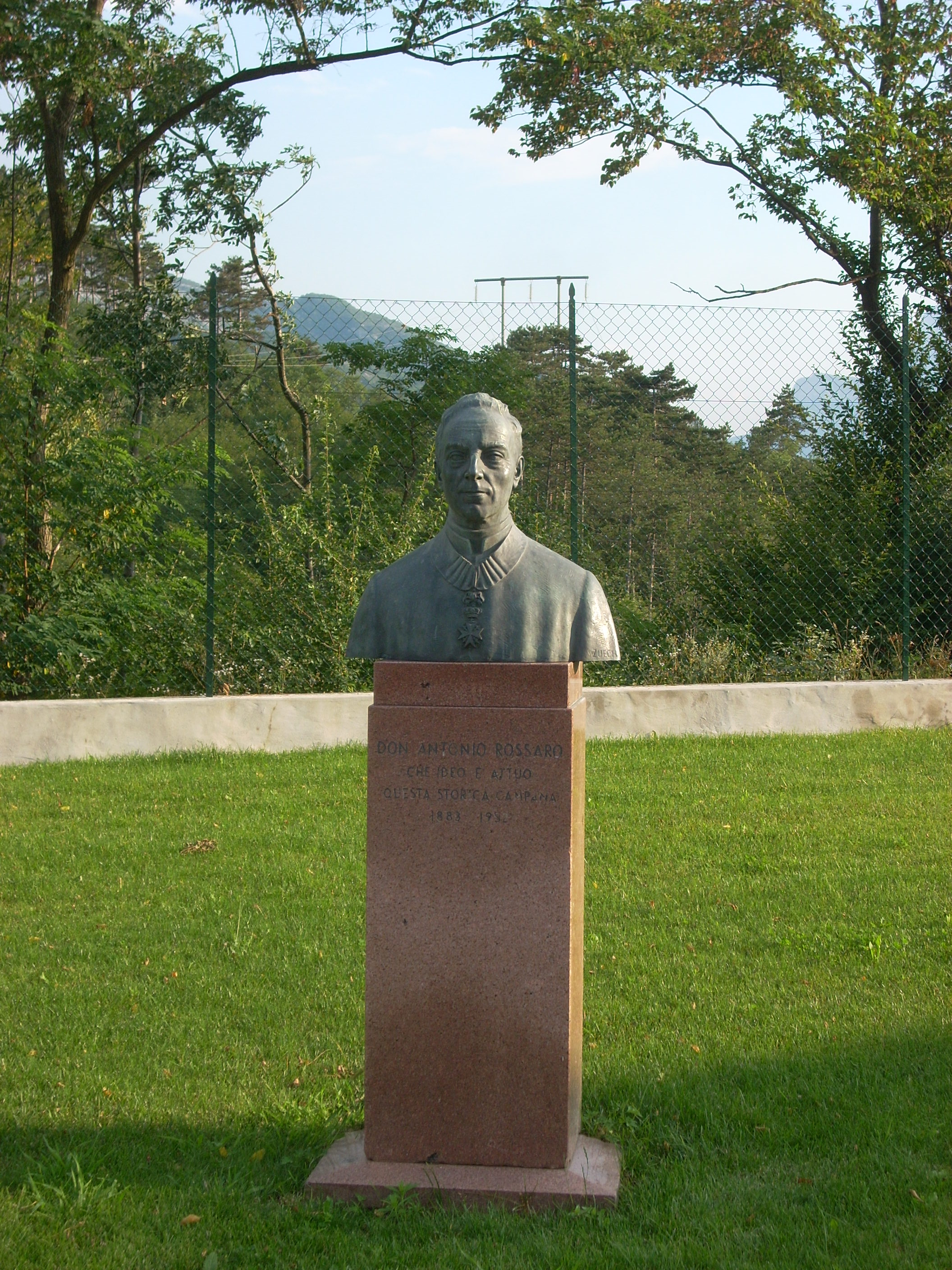 Bust of Antonio Rossaro, the creator of the Bell of the Fallen ("Campana dei Caduti")